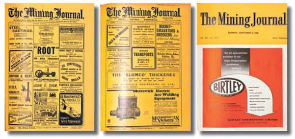 Early editions of the Mining Journal